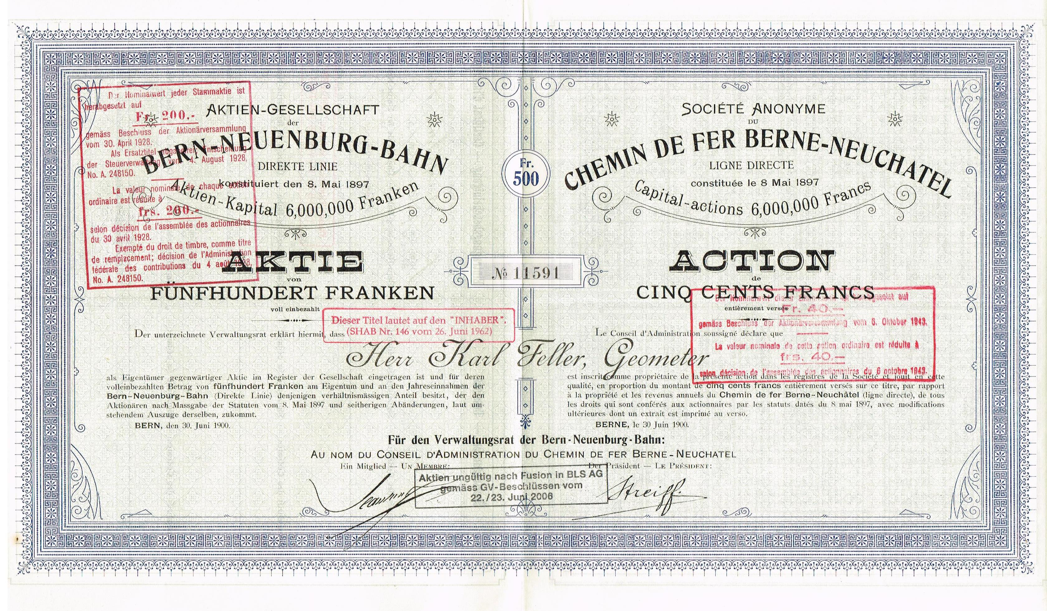 Share of the AG der Bern-Neuenburg-Bahn, issued 30. June 1900